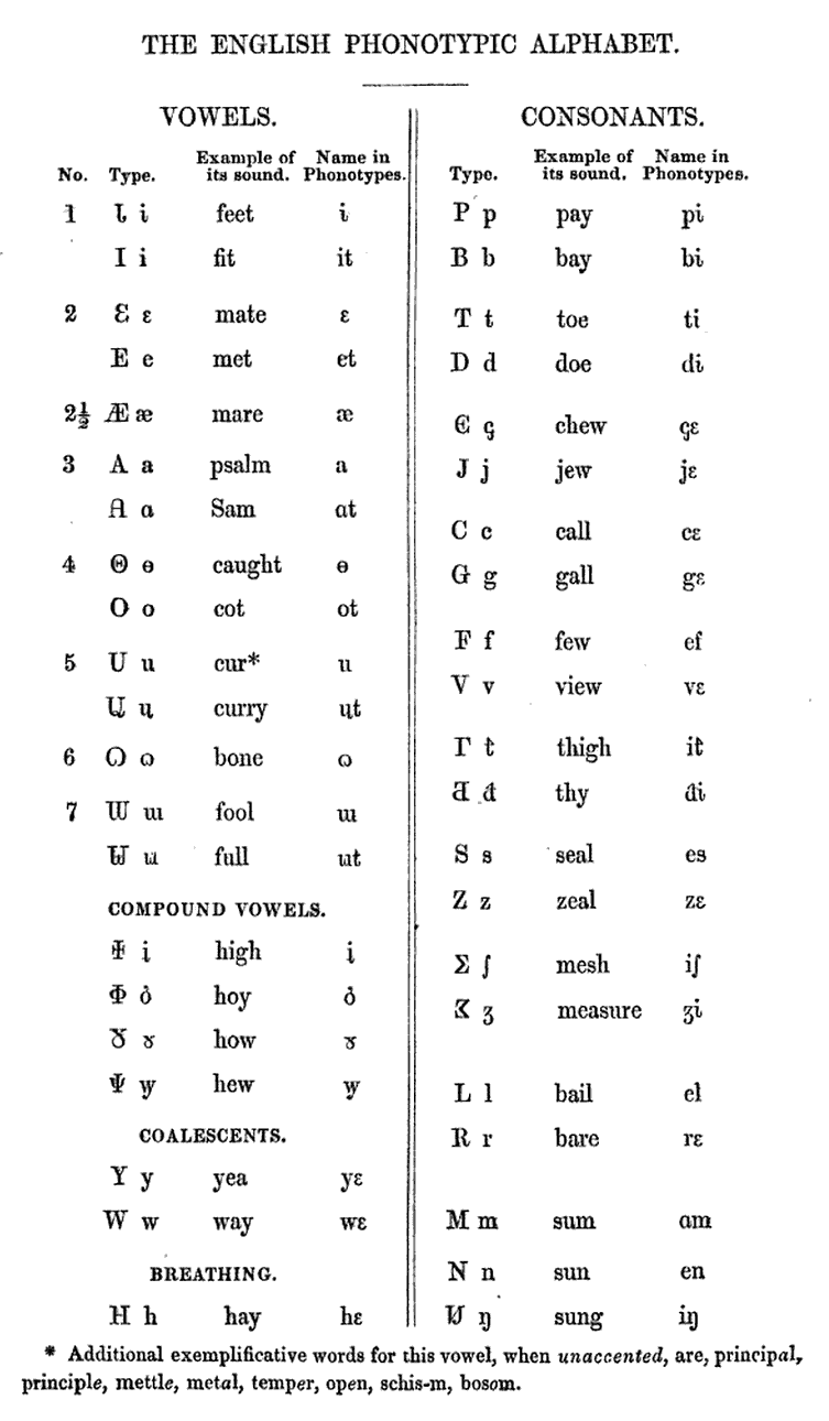 Chart of vowels and consonants symbols of the English Phonotypic Alphabet